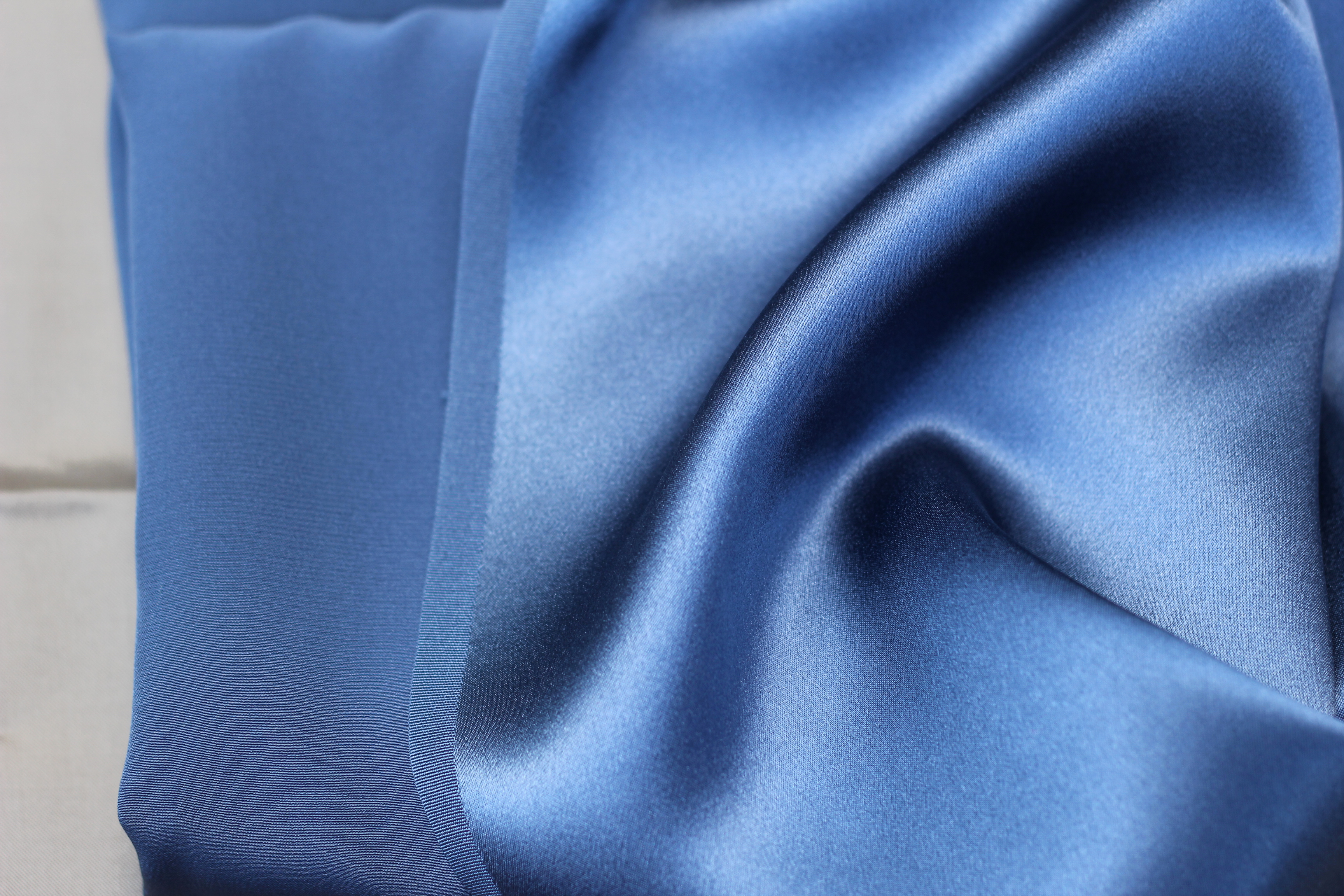 A piece of charmeuse fabric showing the shiny, satin front and dull, matte back. This specific fabric is blue, 100% silk, and lightweight. It is opaque and has a slick hand. It has no stretch.